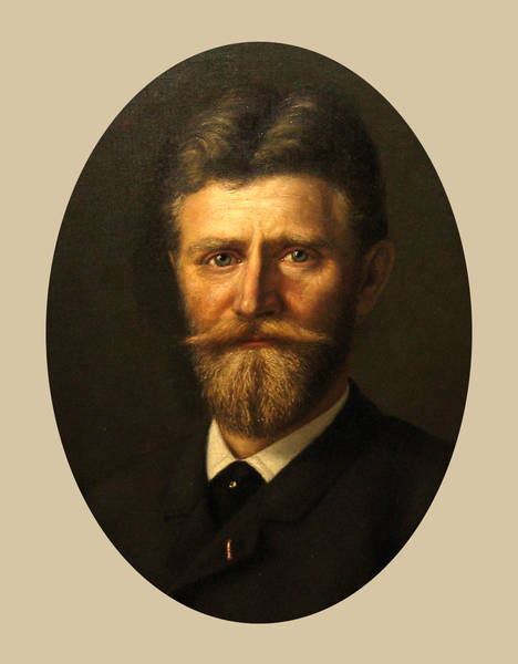 Professor Christopher Peter Jürgensen , Danish precision mechnic